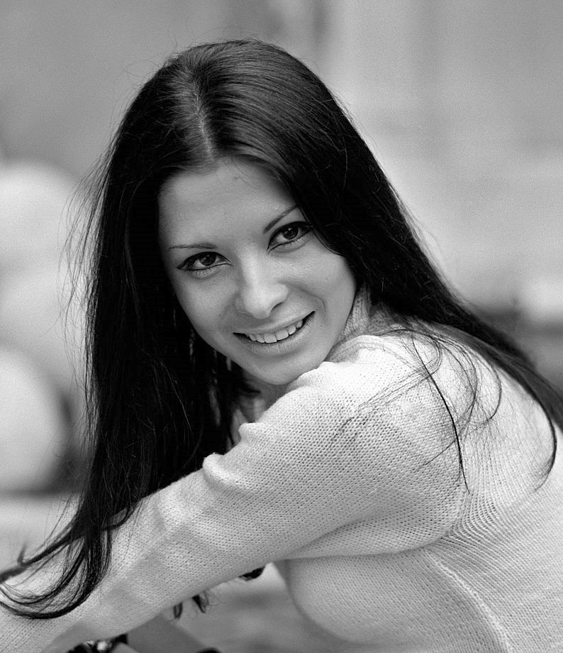 Half-length portrait of beautiful Italian singer Rosanna Fratello, who smiles at the camera; she started her career at a tender age, then became famous thanks to a participation in 1969 Sanremo Music Festival, when she was chosen to substitute singer Anna Identici, who was going through a state of depression. Italy, March 1970.